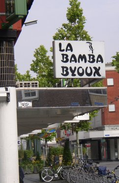 Shop in Hengelo, the Netherlands. The letters 'i·j' in French 'Bijoux' were perceived as the Dutch digraph 'ij' and subsequently replaced with 'y'.